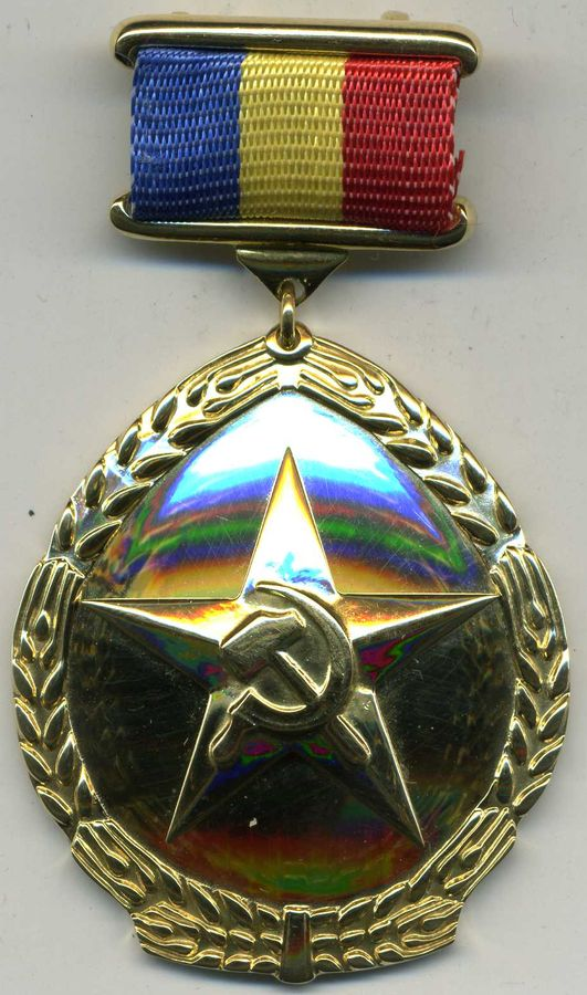 The badge of the "Hero of the New Agricultural Revolution" honorary title